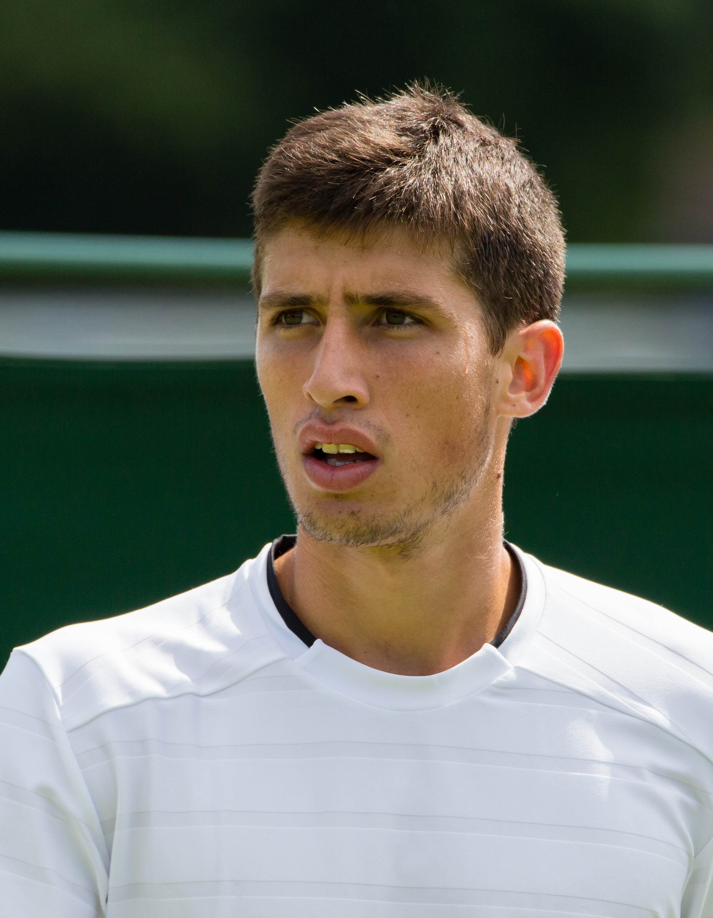 Pedro Cachín competing in the first round of the 2015 Wimbledon Qualifying Tournament at the Bank of England Sports Grounds in Roehampton, England. The winners of three rounds of competition qualify for the main draw of Wimbledon the following week.